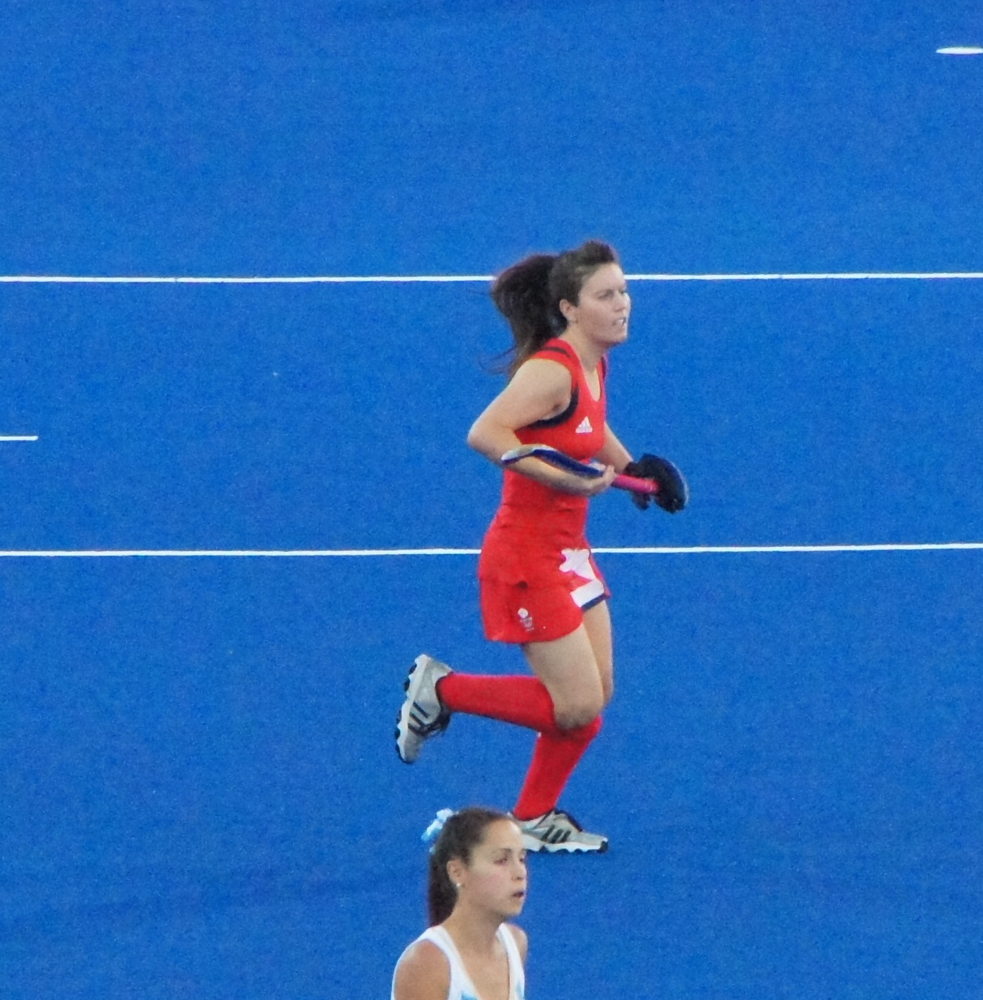 Team GB, hockey player, Laura Unsworth at the 2012 London Olympics